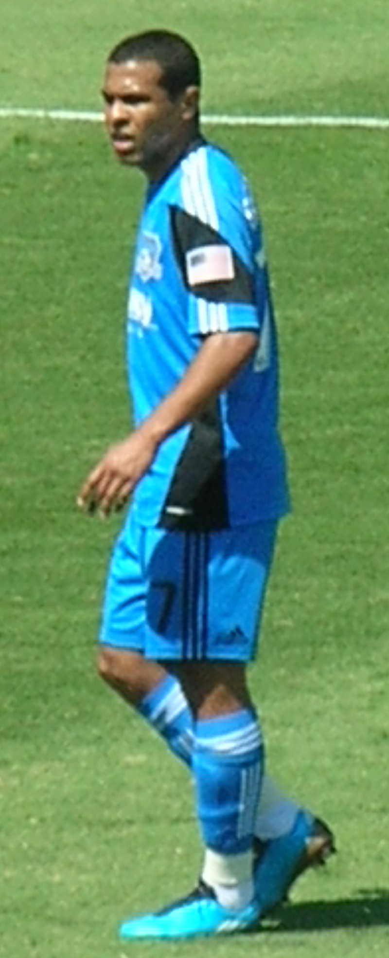 San Jose Earthquakes Geovanni in his MLS debut in a home game against the LA Galaxy. The Earthquakes won 1-0.